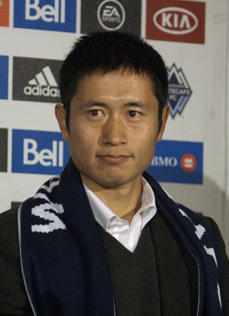 Lee Young-pyo, then of the Vancouver Whitecaps, addresses the media at BC Place on December 7, 2011. Own work; public domain.